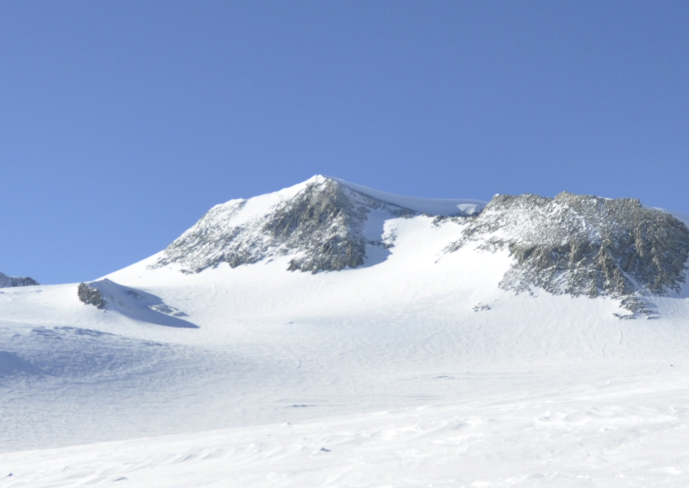 Mount Vinson or Vinson Massif, the highest peak in Antarctica, at 4,892 metres (16,050 ft).